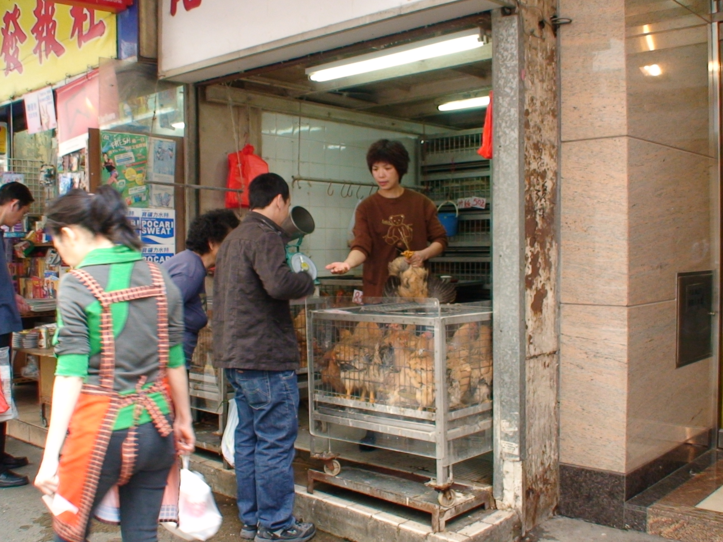 A shop sells live chicken (鋪頭) in Yuen Long , Hong Kong